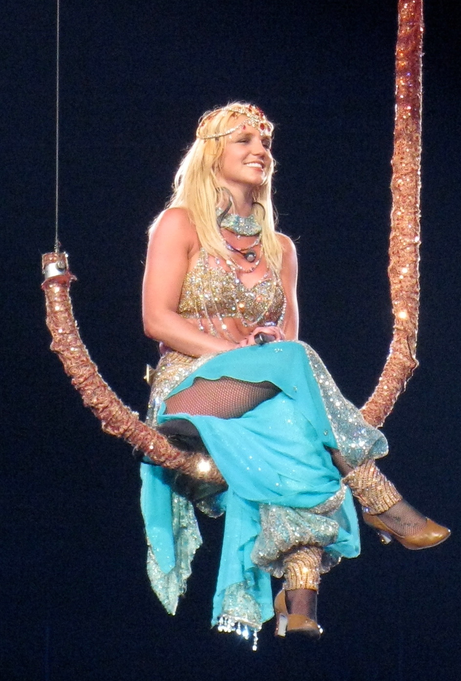 Britney Spears Performing Everytime in Montreal